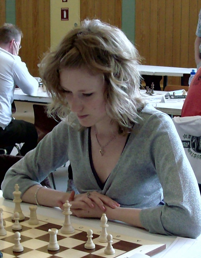 Anna Rudolf, Hungarian chess player